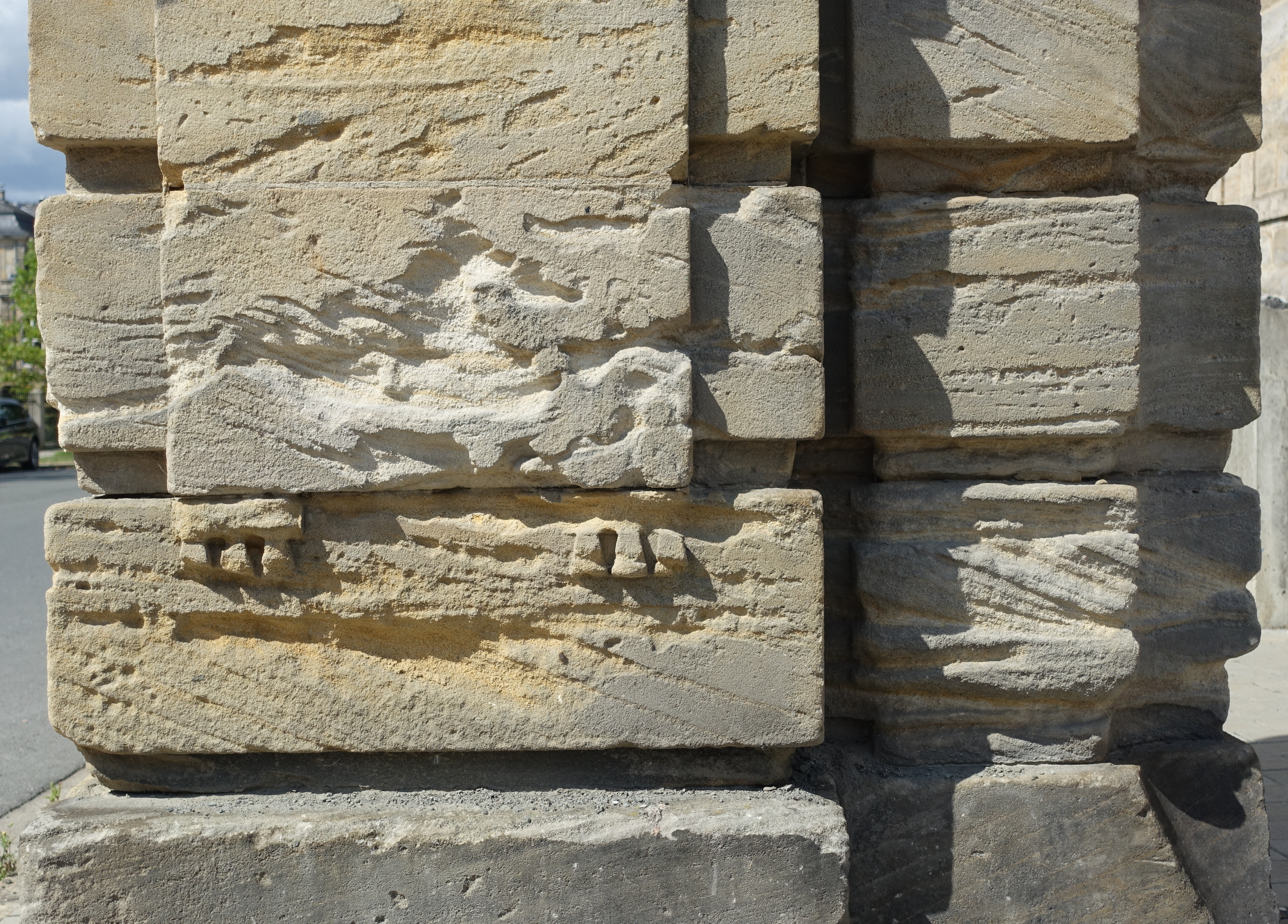 Weathered sandstone at a gate pillar in Bayreuth